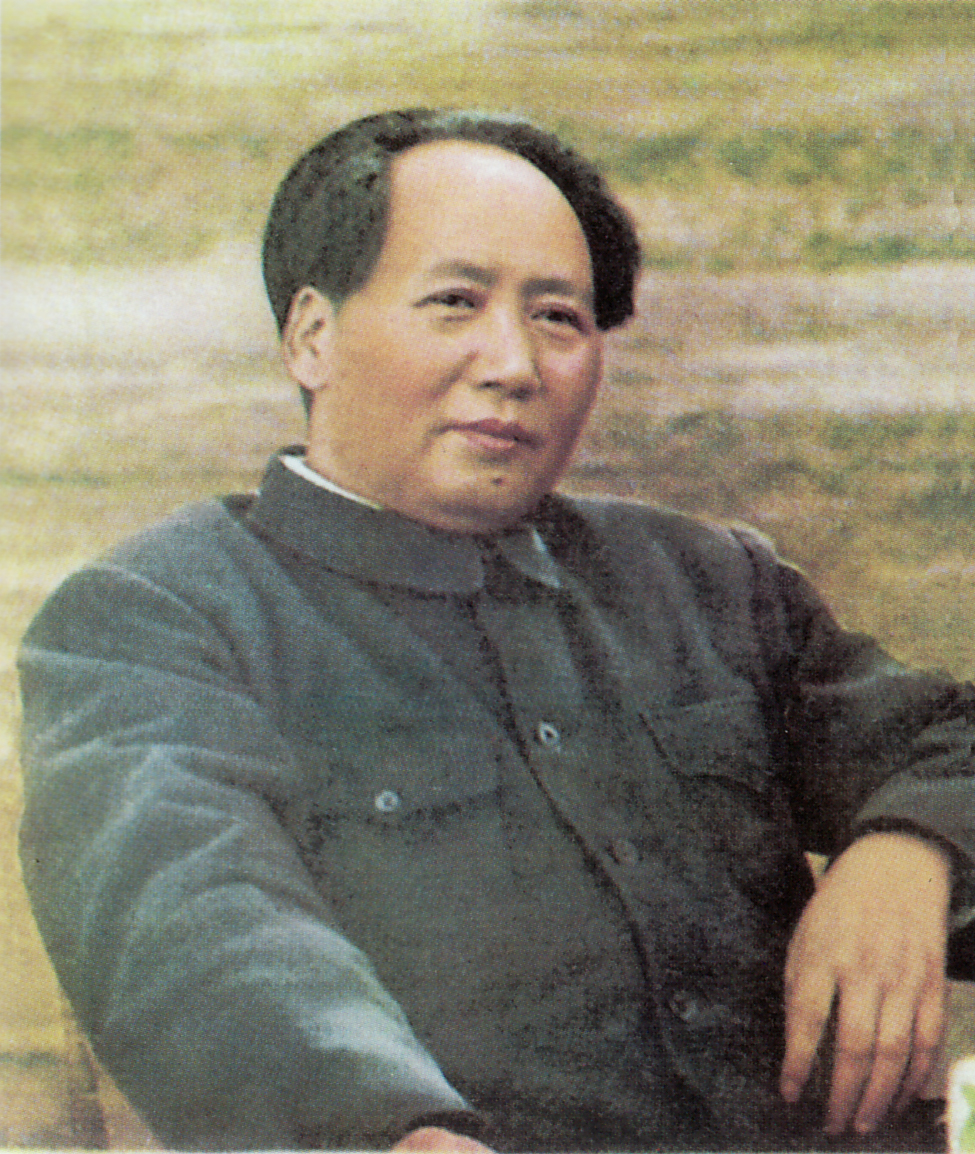 photo of Mao Zedong sitting, published in "Quotations from Chairman Mao Tse-Tung"